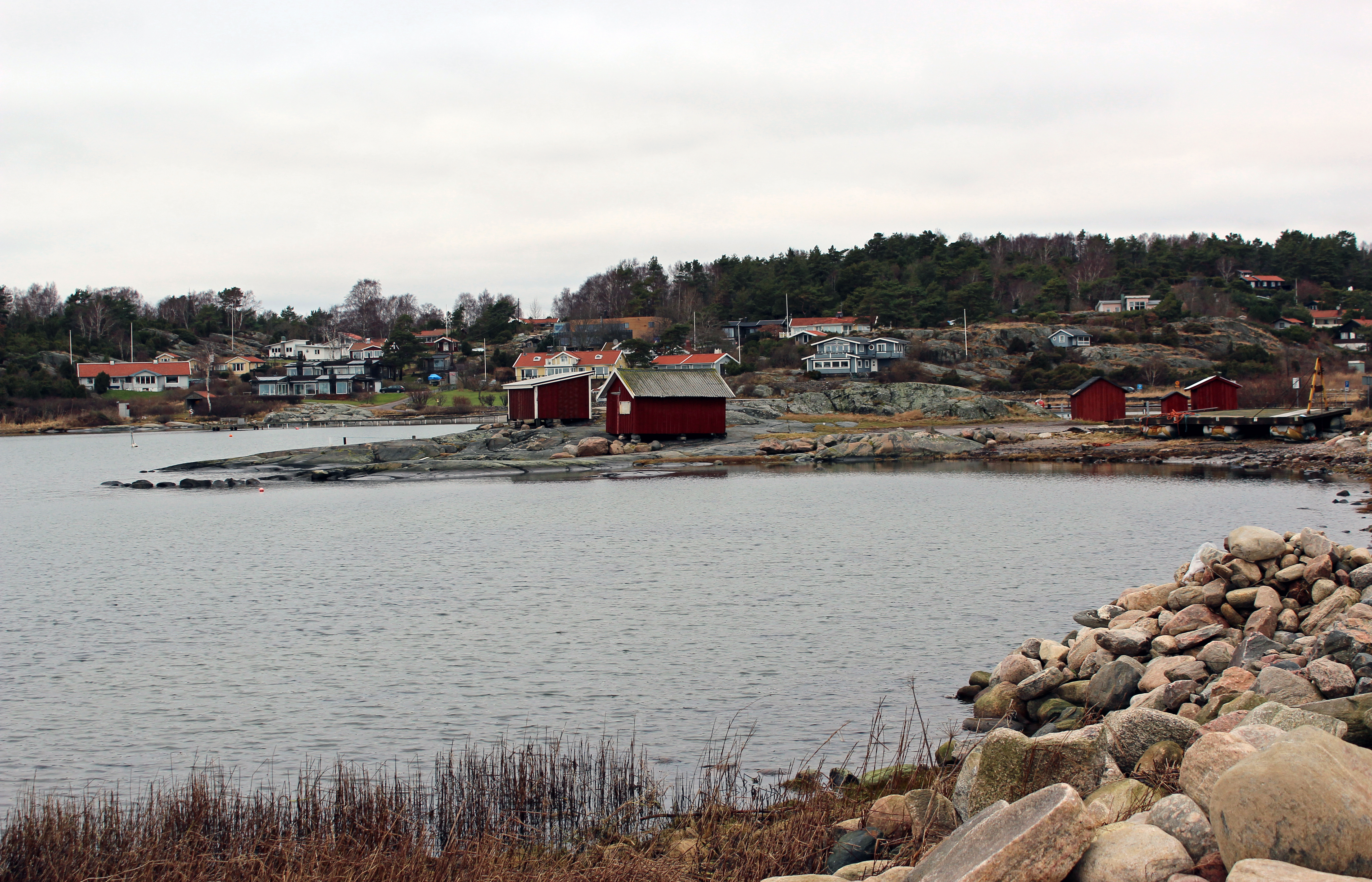 Röda holme on Onsalahalvön, Halland, Sweden.